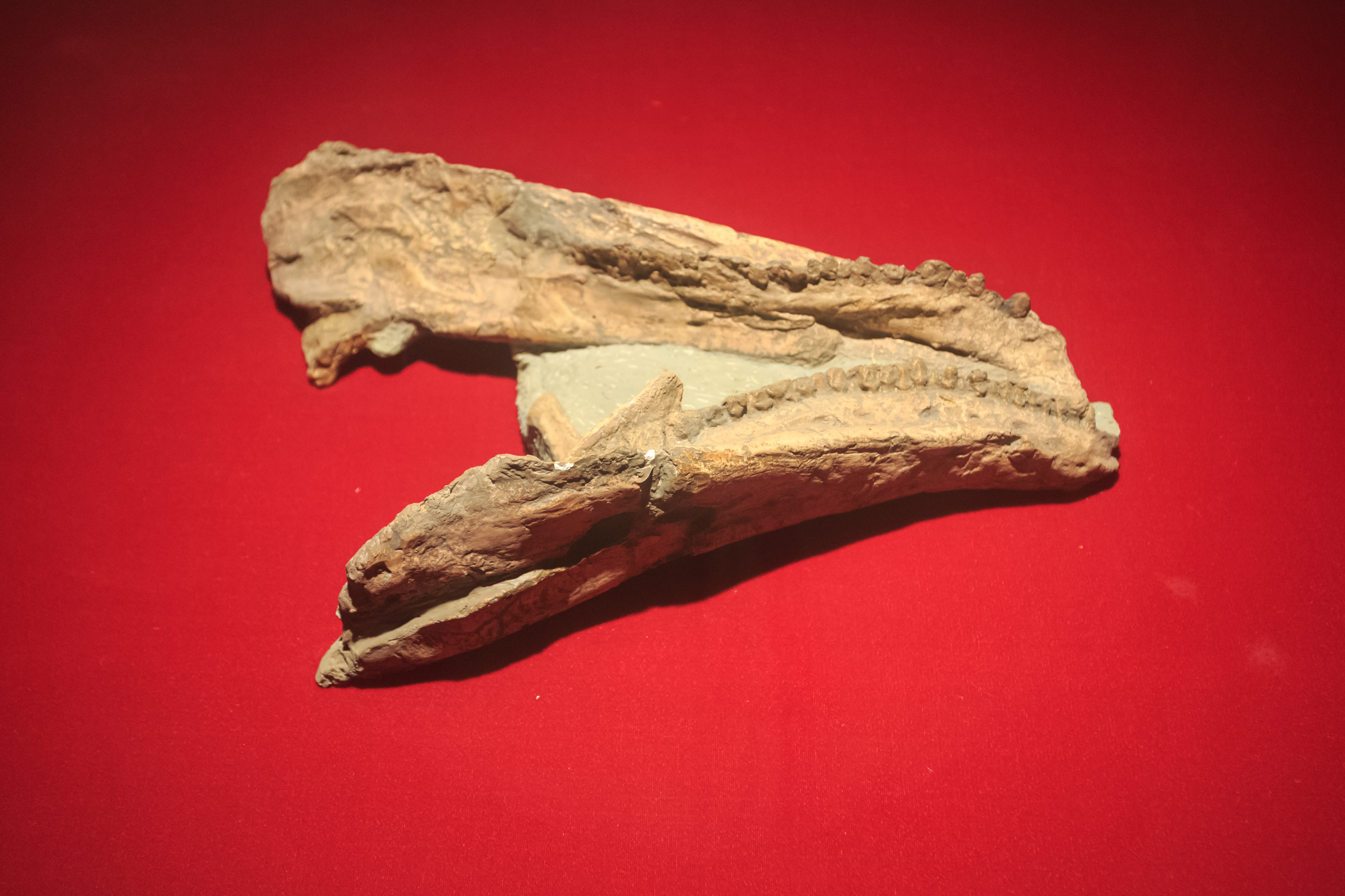 Skull of Gigantspinosaurus sichuanensis. Symtemtic position: Stegosauridae, Stegosauria, Ornithischia. Locality: Zhongquan, Zigong, Sichuan, China. Age: Late Jurassic (about 150 million years ago). Gigantspinosaurus sichuanensis is a medium-sized stegosaur donosaur. Its skull is low and elongate, with a few leaf-like teeth. This is a well-preserved lower jaw fossil of Gigantspinosaurus sichuanensis articulated with its postcranial.